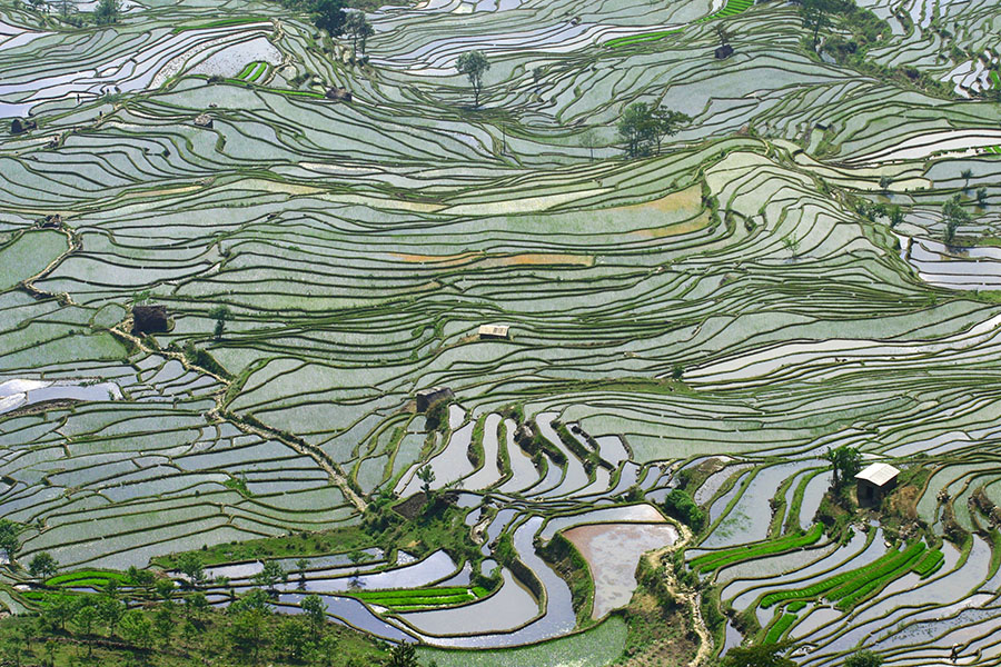 Subsistent farming in Yunnan Province, southern China